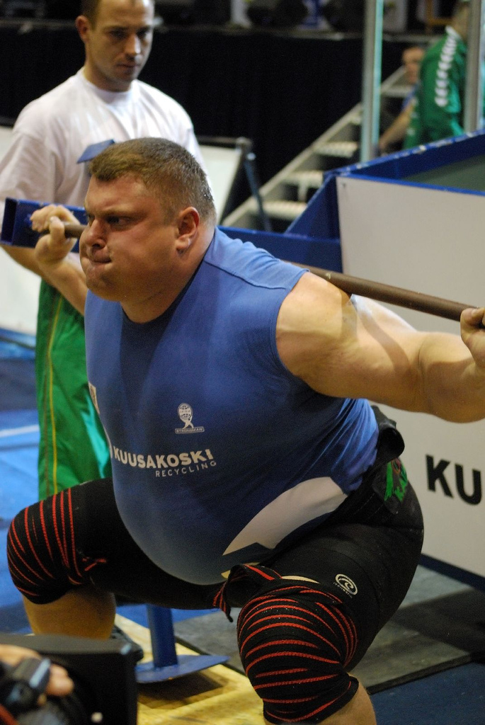 Zydrunas Savickas - 5 time the winner of Arnold's Strongman and two time world champion.